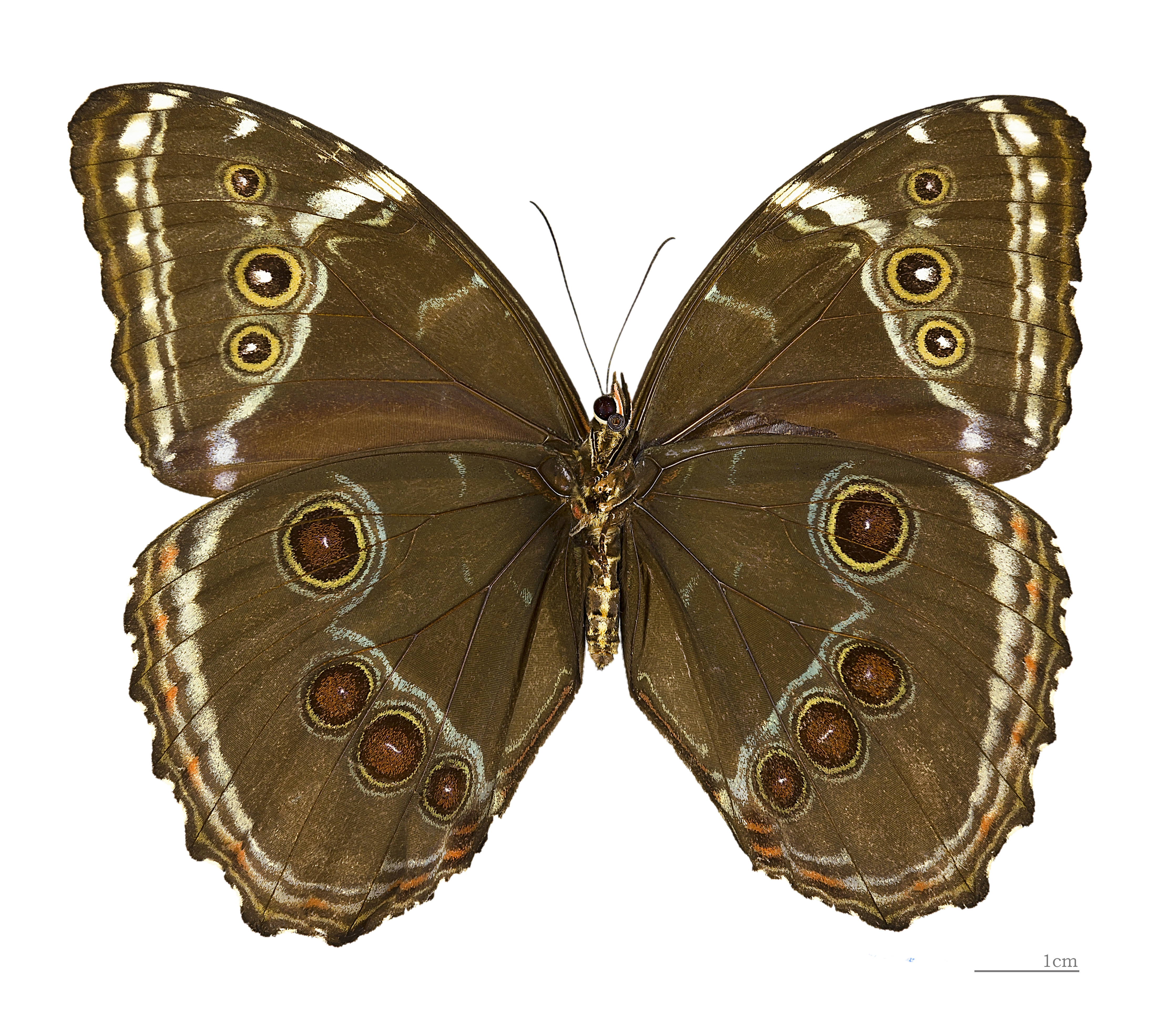 Morpho helenor helenor - △ Ventral side